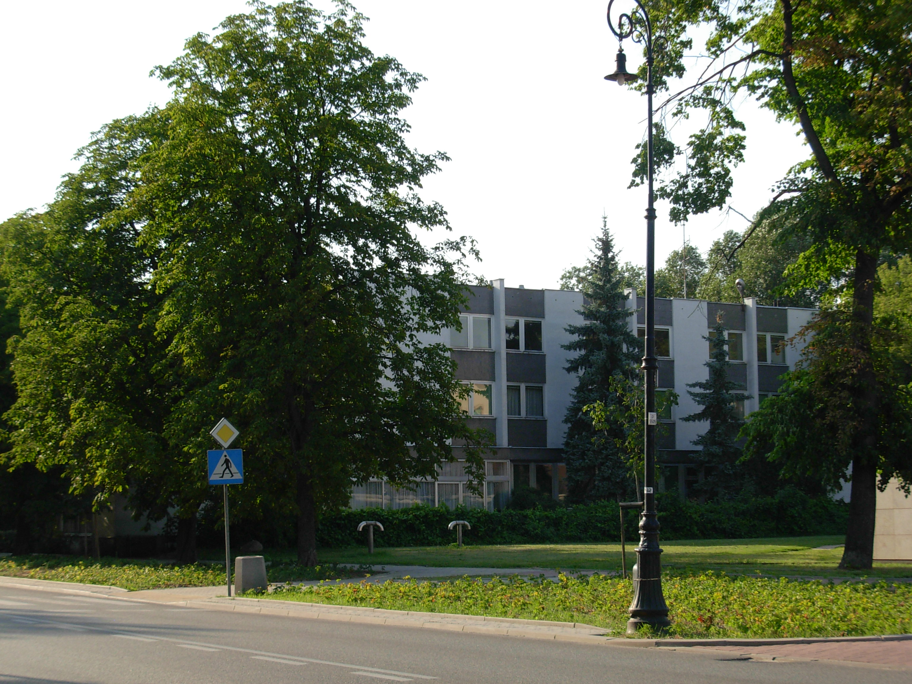 Hungarian Embassy Trade Economic and Commercial Division in Warsaw